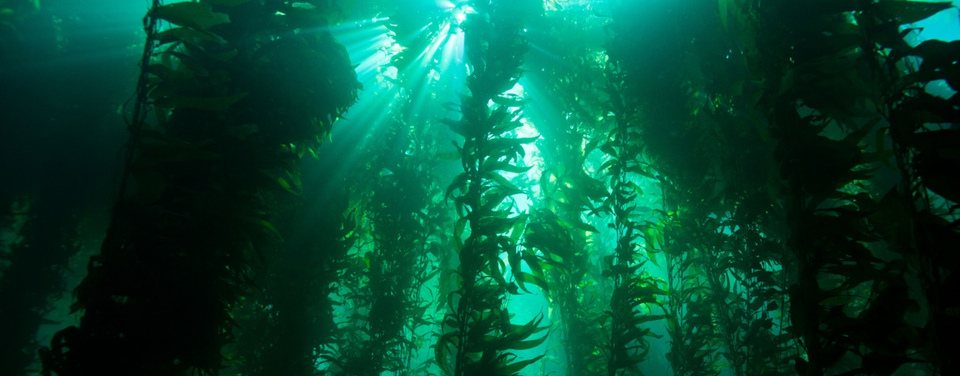 In ideal conditions, kelp can grow up to 18 inches per day, and in stark contrast to the colorful and slow-growing corals, the giant kelp canopies tower above the ocean floor. Like trees in a forest, these giant algae provide food and shelter for many organisms. Also like a terrestrial forest, kelp forests experience seasonal changes. Storms and large weather events, like El Niño, can tear and dislodge the kelp, leaving a tattered winter forest to begin its growth again each spring. (Original source and more information: NOAA National Ocean Service Ocean Facts)